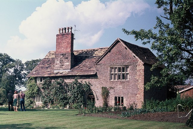 Photograph